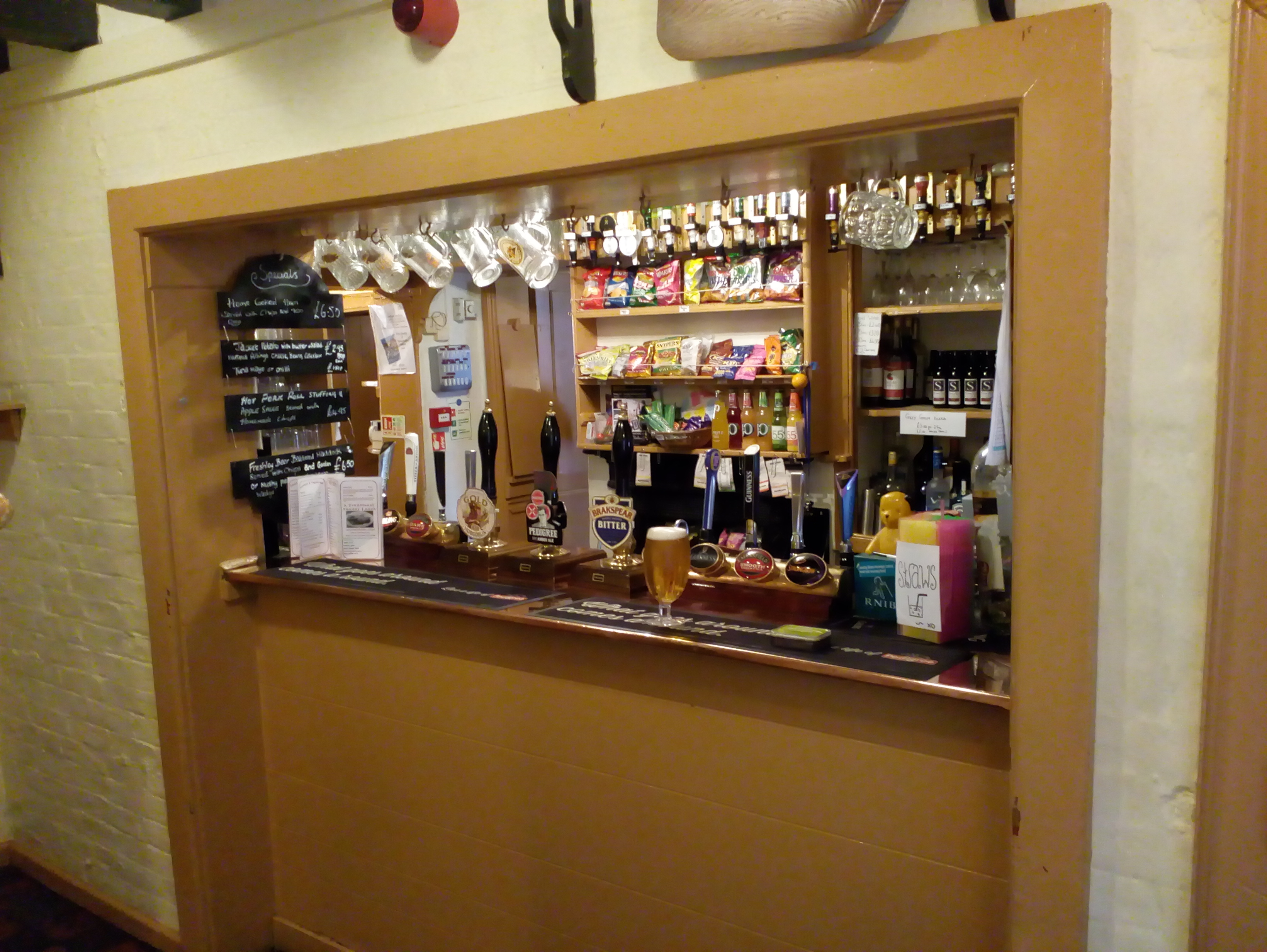 The bar at the Malt Shovel in Spondon in 2017